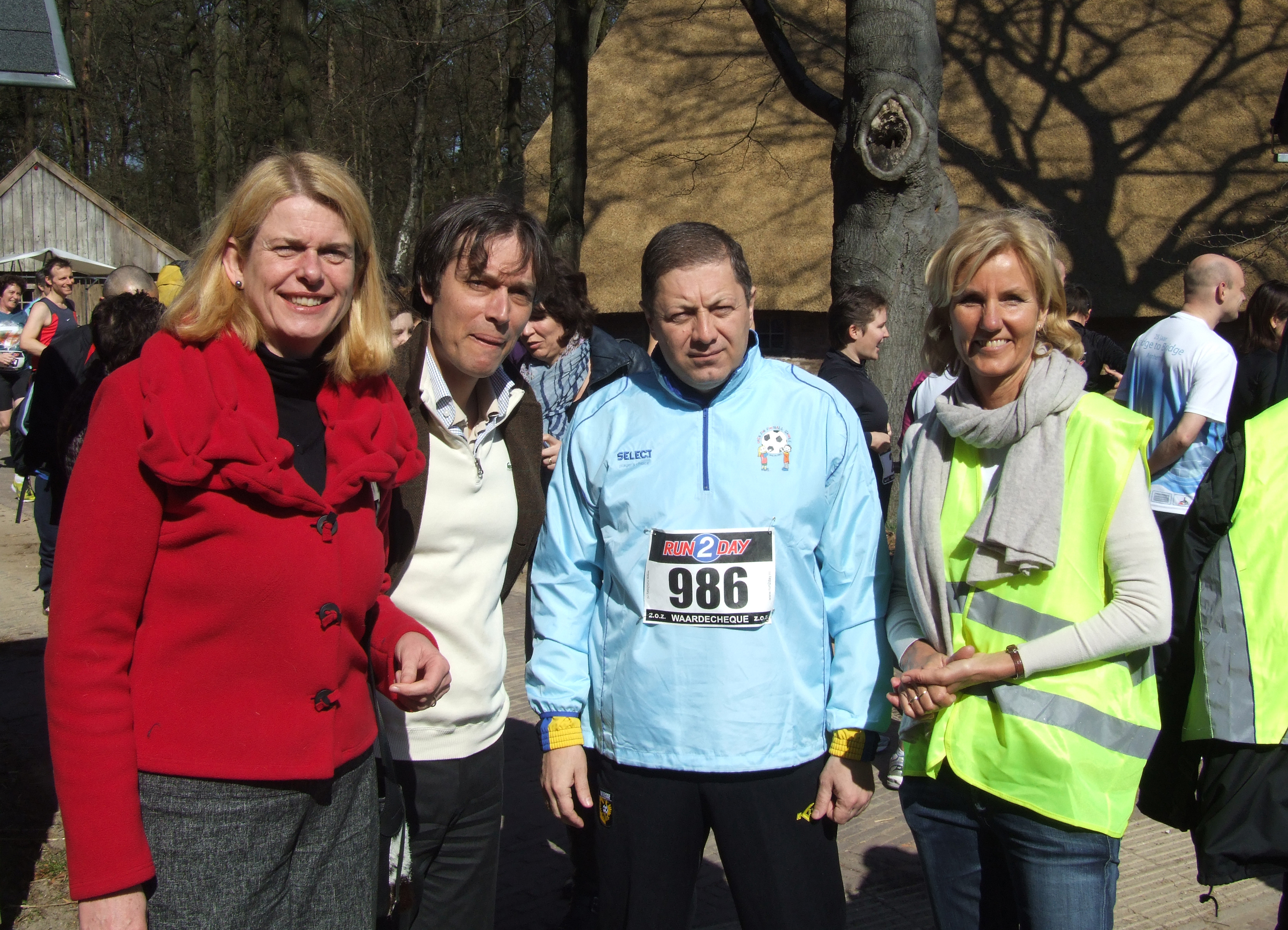 The launch of the fun run was fired by Mayor Pauline Krikke. In this photo with Pieter-Matthijs Gijsbers (director of Open Air Museum), Merab Jordania (Chairman of the board of Vitesse and participant 5KM) and Grace Roeterd (Ciko'66 / organization Rondje Nederland)